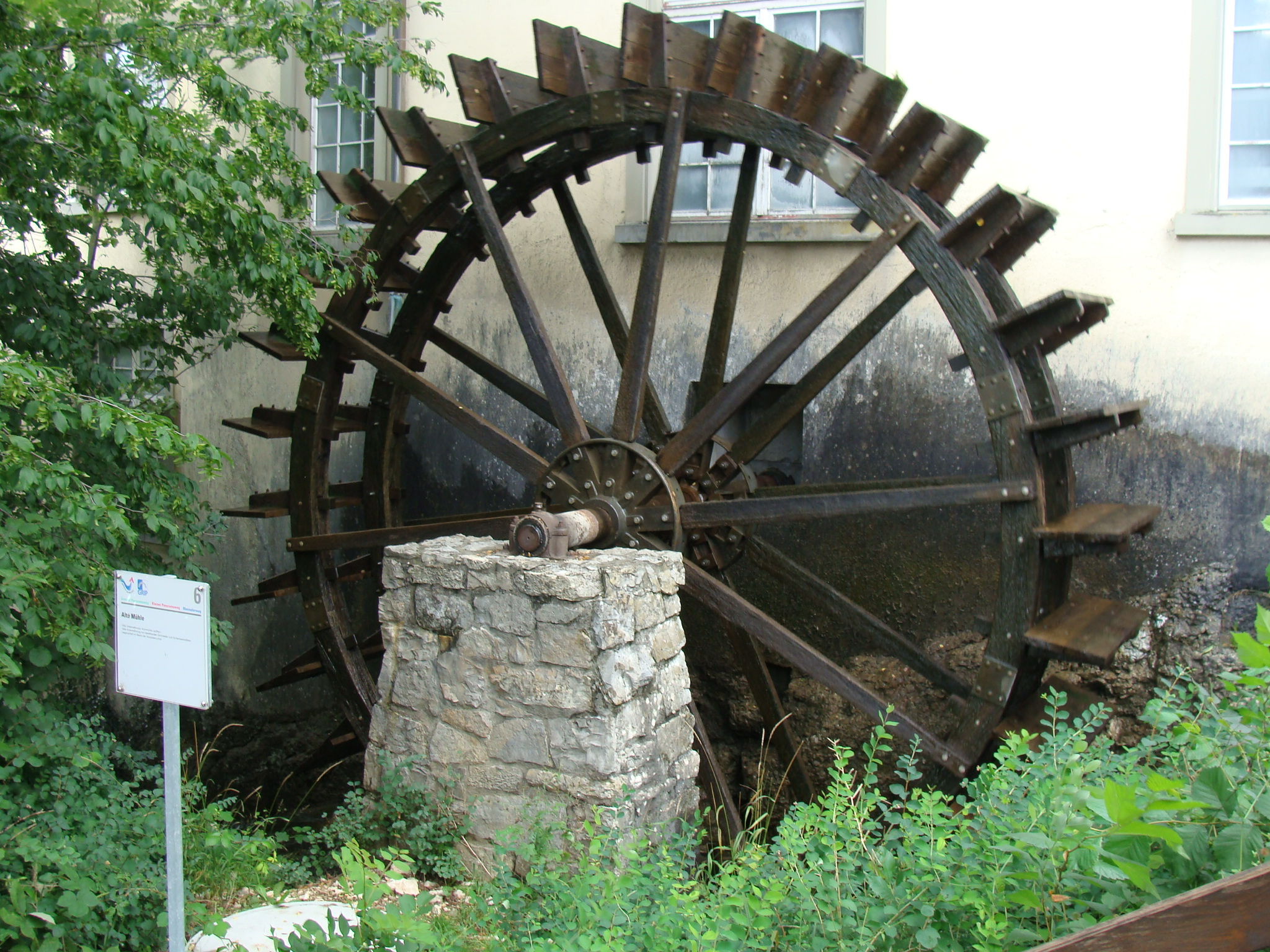 Water wheel (undershot) directly on the right bank of the Rhine Falls.